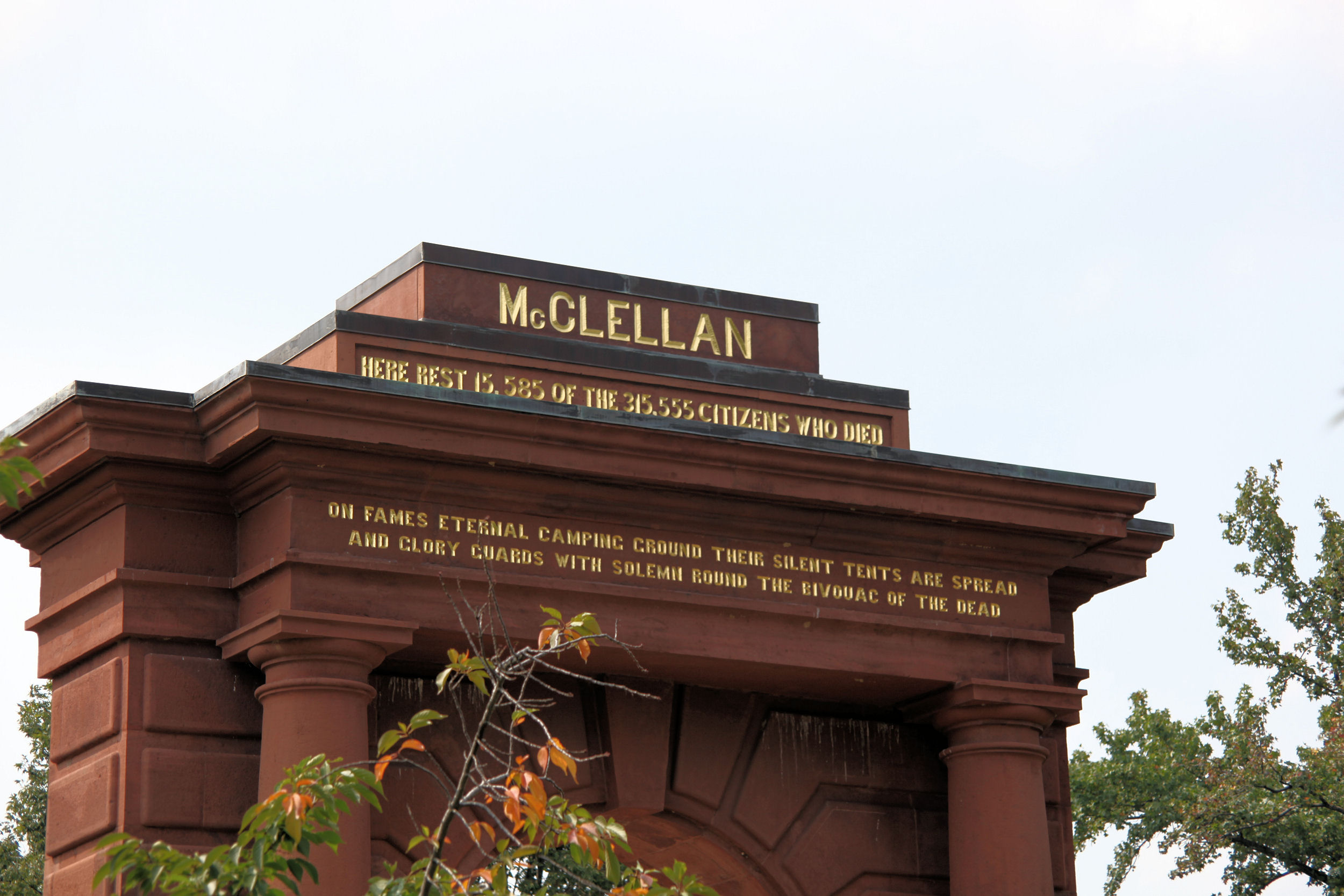 Looking west-northwest at the east-facing pediment atop the McClellan Gate at Arlington National Cemetery in Arlington, Virginia, in the United States. The upper portion of the inscription (only a portion of which is visible from this angle) reads: "Here rest 15,585 of the 315,555 citizens who died in defence of our country from 1861 to 1865." The inscription counted only Union casualties buried at the cemetery as of 1871. U.S. Army Quartermaster General Montgomery C. Meigs had authority over Arlington National Cemetery after the American Civil War. At that time, the eastern boundary of the cemetery lay where Eisenhower Drive is located today. In 1871, Meigs ordered the a main ceremonial gate to Arlington be constructed just east of what is now the intersection of McClellan Avenue and Eisenhower Drive. Built of red sandstone and red brick, Meigs named it the McClellan gate after Major General George B. McClellan, who organized the Army of the Potomac and served from November 1861 to March 1862 as the general-in-chief of the Union Army. Meigs ordered the name "MCCLELLAN" inscribed into the gate's east=facing rectangular pediment in gilt letters. In the left main column of the gate's west face, Meigs had his own name inscribed as a tribute to himself. In 1900, the federal government transferred 400 acres of Arlington National Cemetery which lay between McClellan Gate and the Potomac River to the U.S. Department of Agriculture, which used it as an experimental farm. In 1932, Memorial Drive and the Hemicycle (now the Women in Military Service to America Memorial) were built as a new ceremonial entrance to the cemetery. The 400 acres were returned to Arlington National Cemetery just before World War II, which required the abandonment of the McClellan Gate as Arlington's main gate.